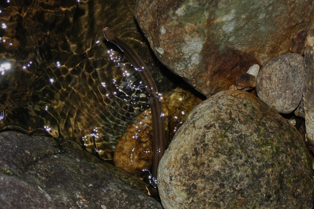 Taken in Lantau South Country Park.